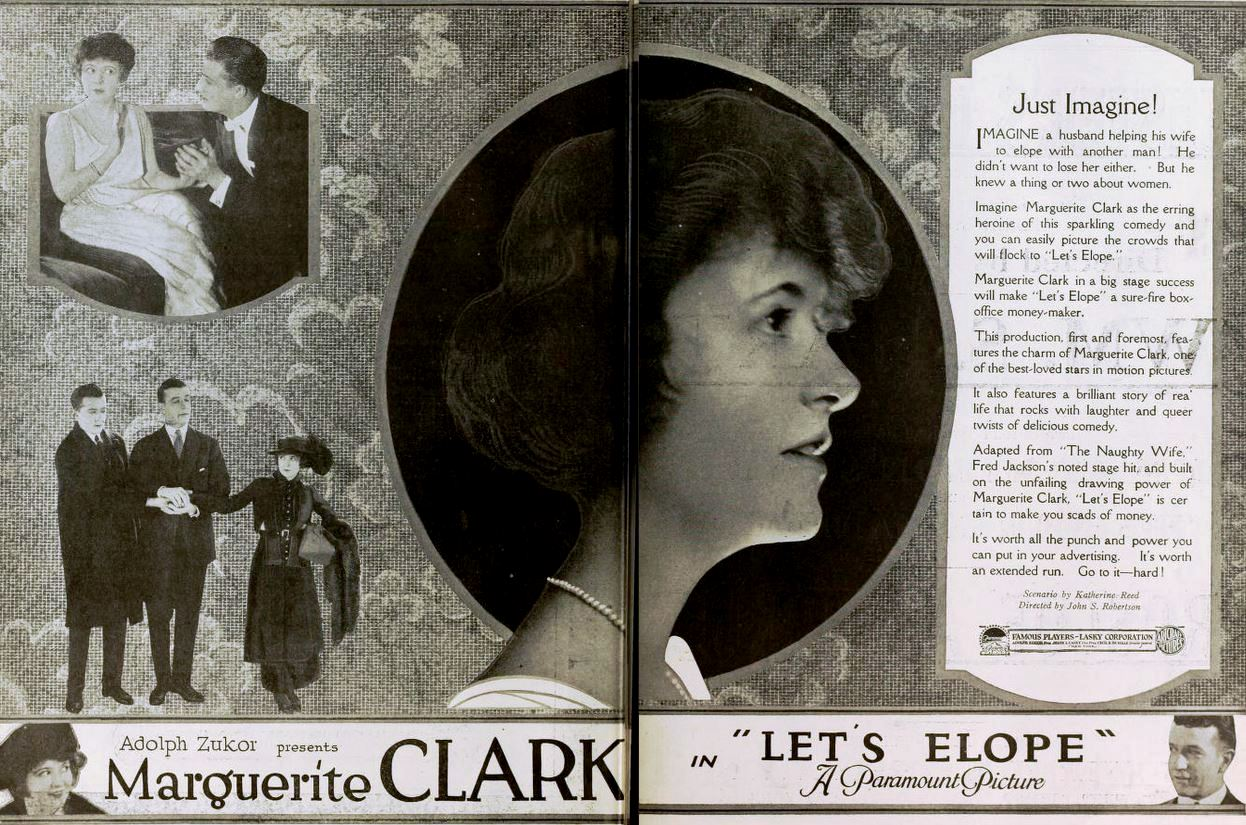 Ad for the American comedy film Let's Elope (1919) with Marguerite Clark and Gaston Glass, on pages 608 and 609 of the May 3, 1919 Moving Picture World.